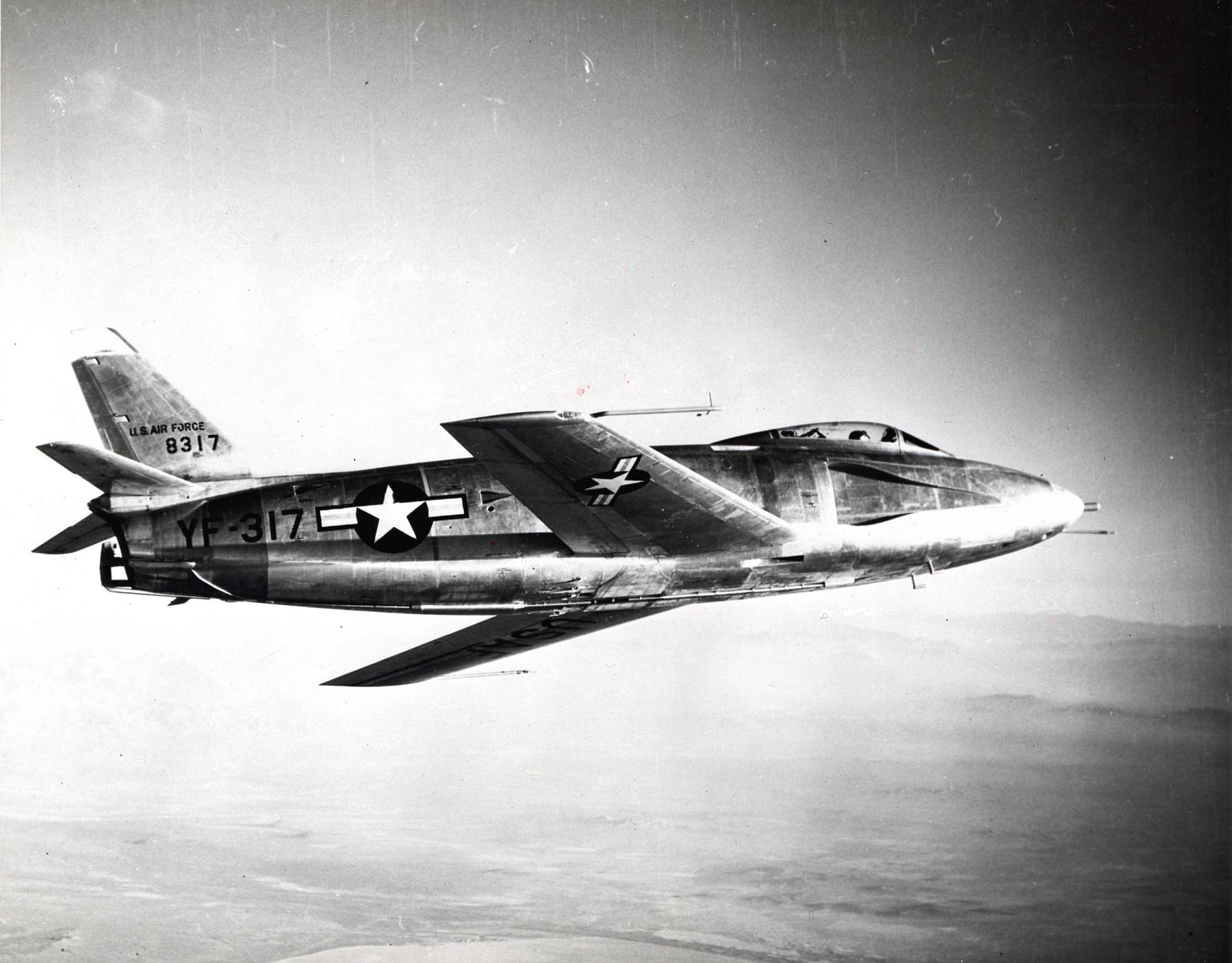 A North American YF-93. Taken from [1] and uploaded for use in that article by me. -Lommer